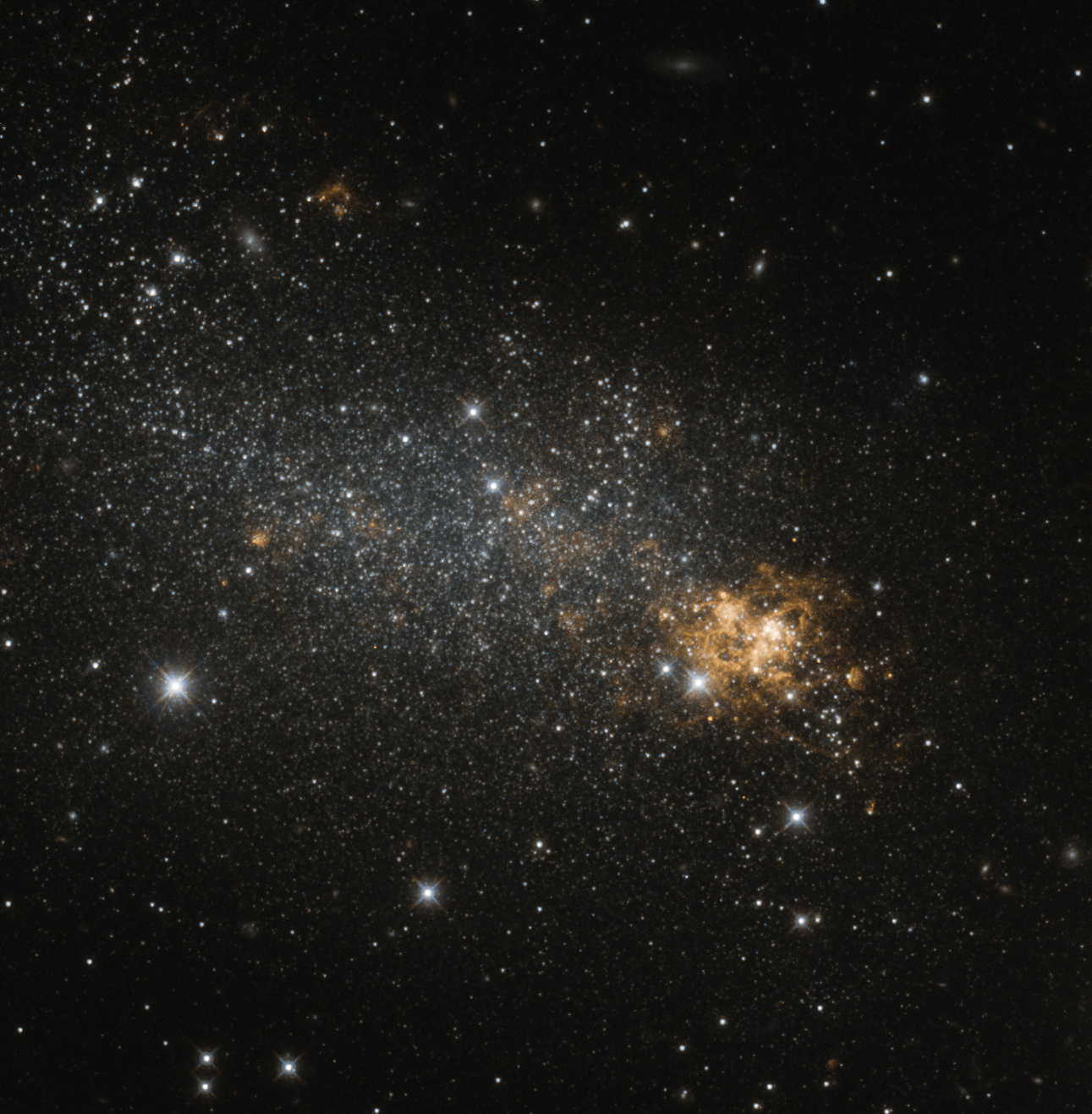 This is an irregular galaxy once mistaken for a planetary nebula. I managed to combine a couple of infrared filters (more or less grey) from the WFC3 with some H-alpha (orange) data from the WFPC2 for an interesting result. What bothers me here is that I have no idea how to obtain some x-ray data because if I had that then I could point to it and say there's some kind of black hole accretion disk of some sort going on there, which is creating an ultra-luminous x-ray source (astronomers get to use all the cool words). Looking at the citations for NGC 5408 X-1, it must be a pretty neat thing because it gets cited over and over again. Conclusion: Astrophysicists love black holes. Who doesn't, though? Data from these two proposals were used: An Irradiated Disk in an Ultraluminous X-Ray Source The Recent Star Formation History of SINGS Galaxies Red: WFC3/IR F160W + hst_11987_29_wfpc2_f656n_wf_sci Green: Pseudo Blue: WFC3/IR F105W North is up.